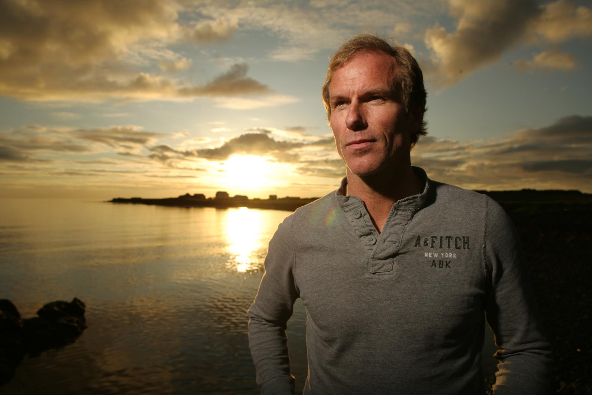 Picture of Thor, Thorgrimur Thrainsson.